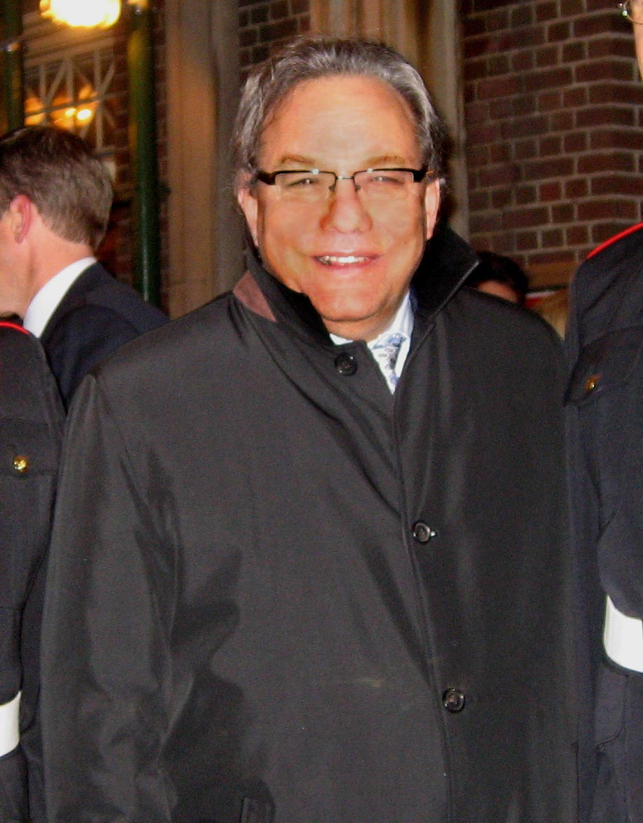 American comedian Lewis Black at "Stand Up for Heroes," a comedy and music benefit organized by the Bob Woodruff Family Fund to raise money for injured U.S. servicemen.